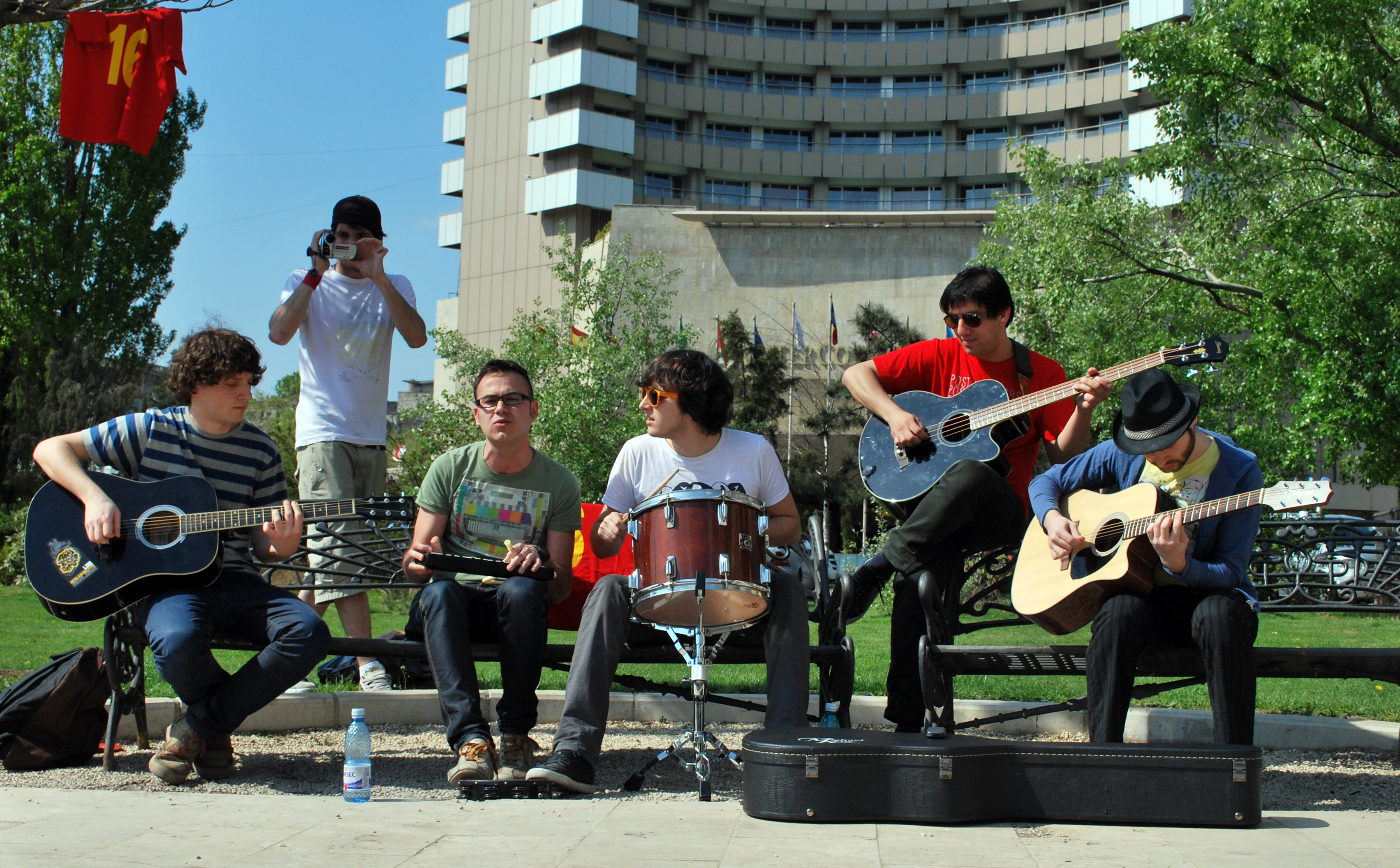 The Amsterdams playing in the National Theater Park in Bucharest.